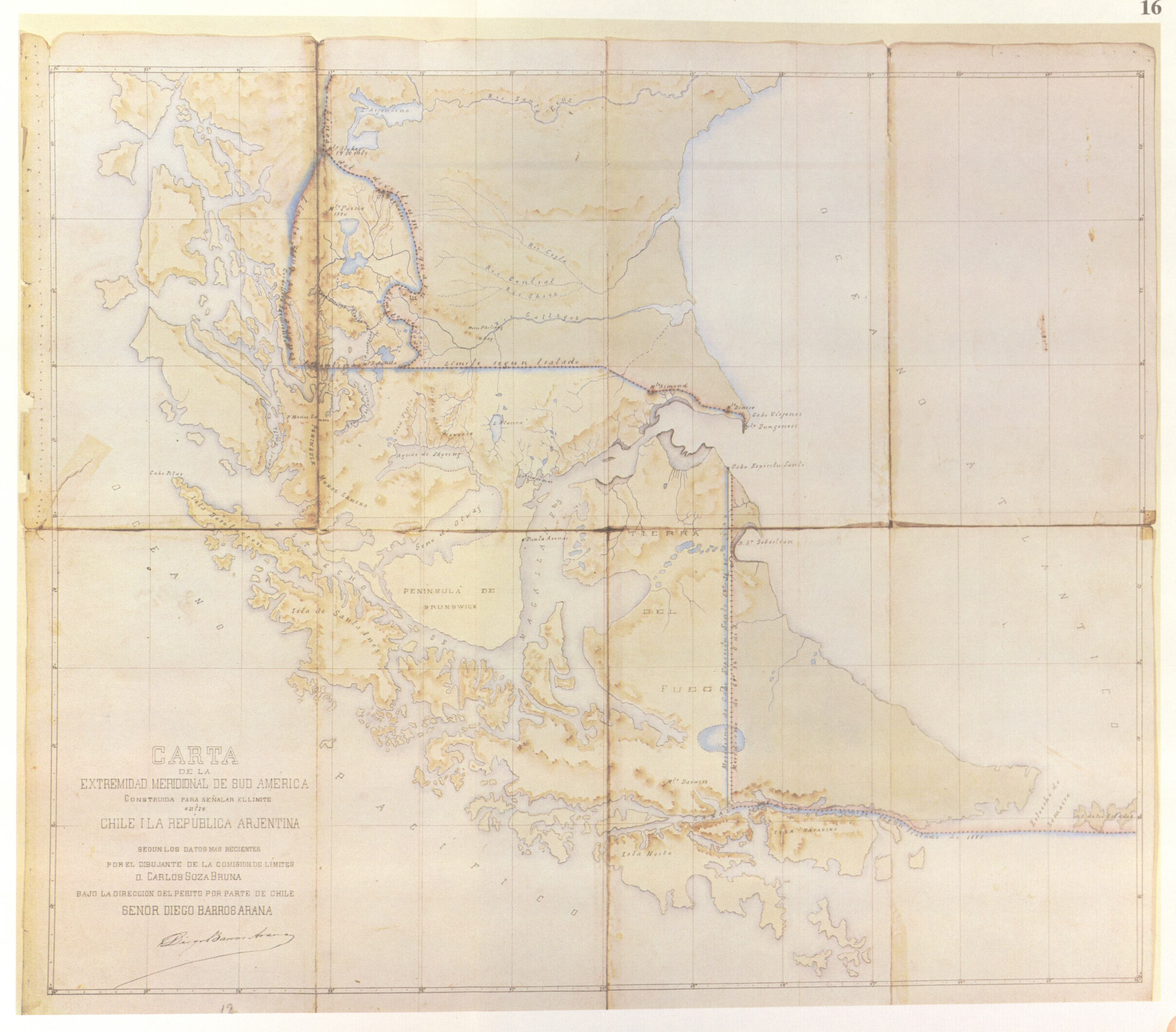 "This is a reproduction of the 'Chart of the southern part of South America, prepared to indicate the boundary between Chile and the Argentine Republic' under the directio n of the Chilean Expert on marking the frontier line, Diego Barros Arana. This manuscript is attached to the Report which he sent to the Government of Chile on 25 October 1890. In the southern region the boundary is shown as traced through the centre of the Beagle Channel and beyond its eastern mouth. Beneath appear the words 'Boundary line in accordance with the 1881 Treaty'"